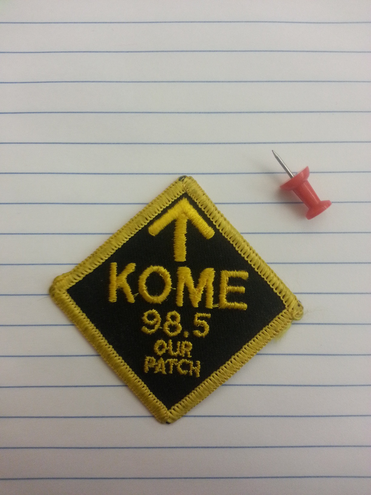 This is an image of a patch distributed by KOME Radio, of San Jose, CA in the 1970s. This particular patch is yellow stitching on black fabric, and has the "Our Decal" text underneath the call letters and frequency# A standard thumbtack is next to it for size comparison#